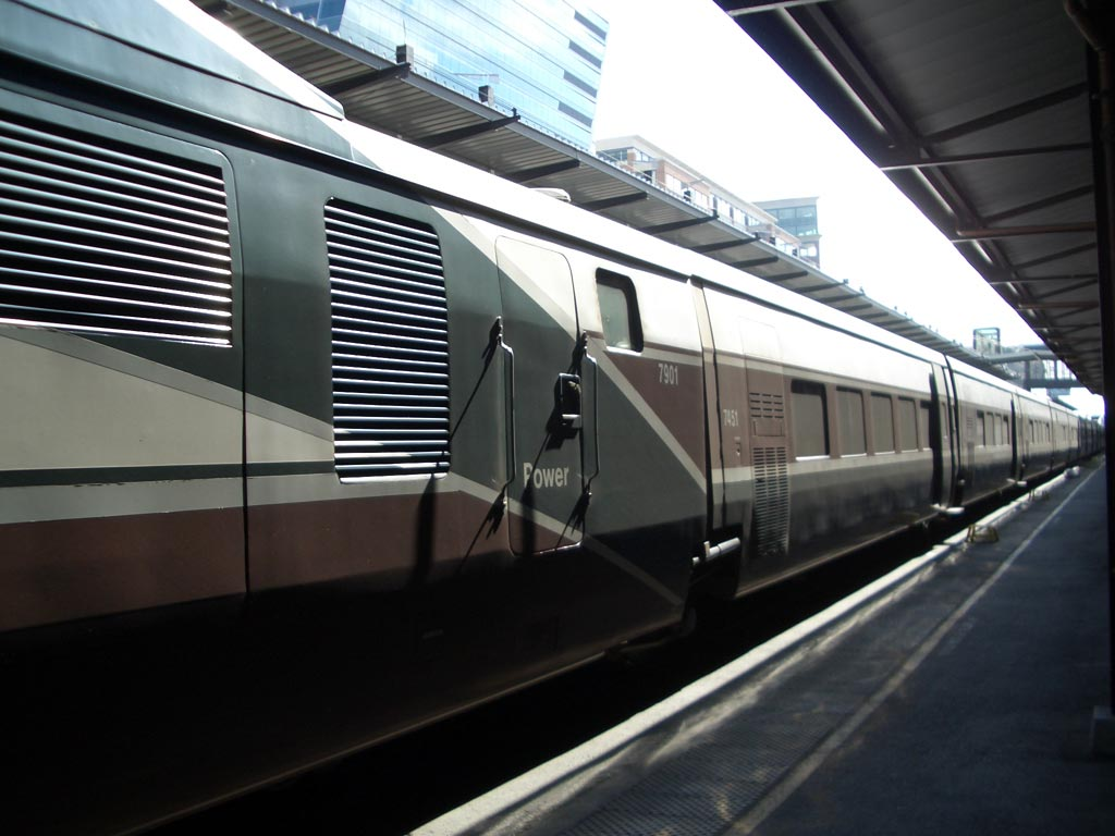 Photographer: Mike Chapman. Amtrak Cascades train parked a station in Seattle, Washington.